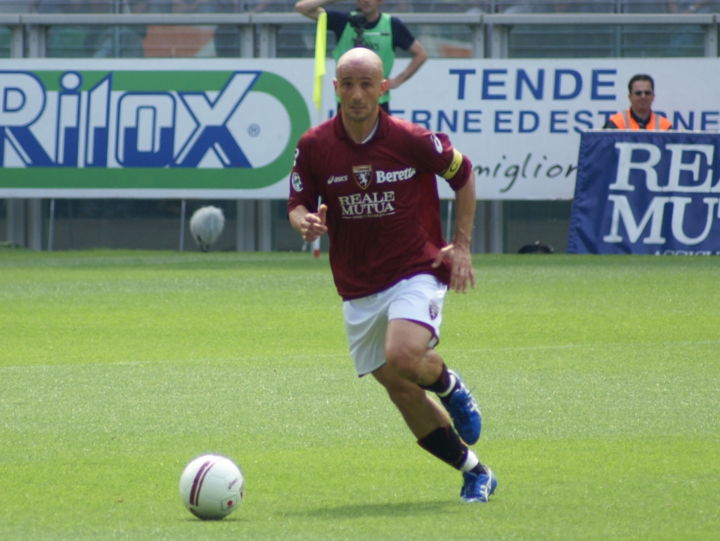 Italian Soccer Player Oscar Brevi